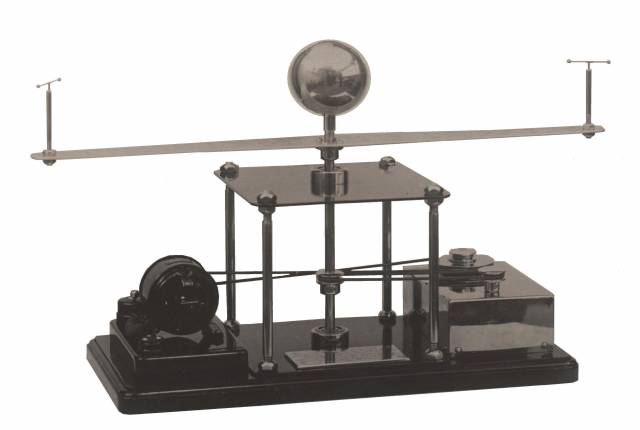 This is a picture of an old model of the universe, made by the blacksmith A. Andér, based upon the description given in Toward the light. It was discovered to be a misunderstood model as the action path of the four mother stars stays on the same plane as the orbit path. The mother starts actually spiral forward around the orbit path. Here's a couple of links with an accurate animation of the mother stars.